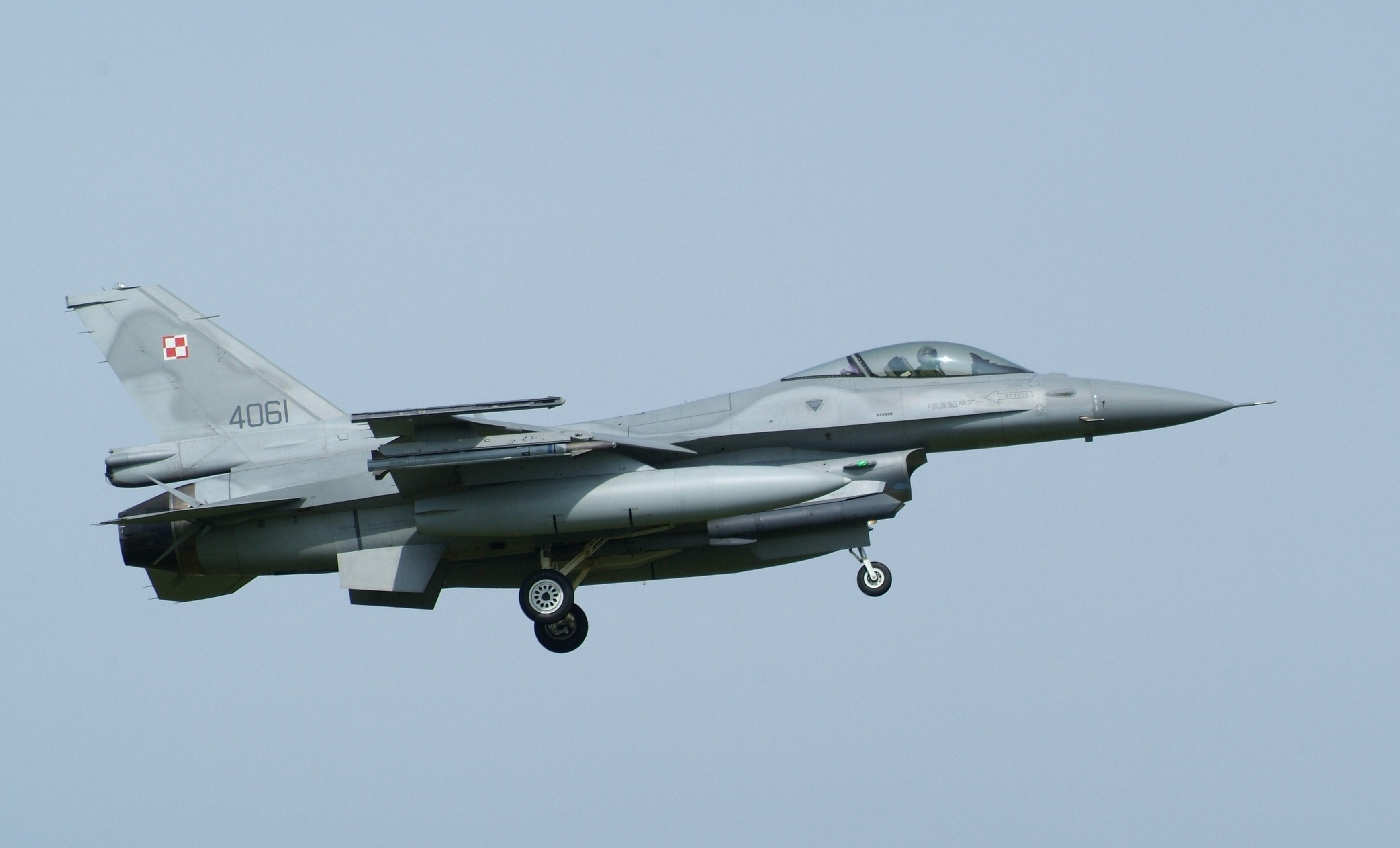 4061 an F-16C of the Polish Air Force's 31 BLT